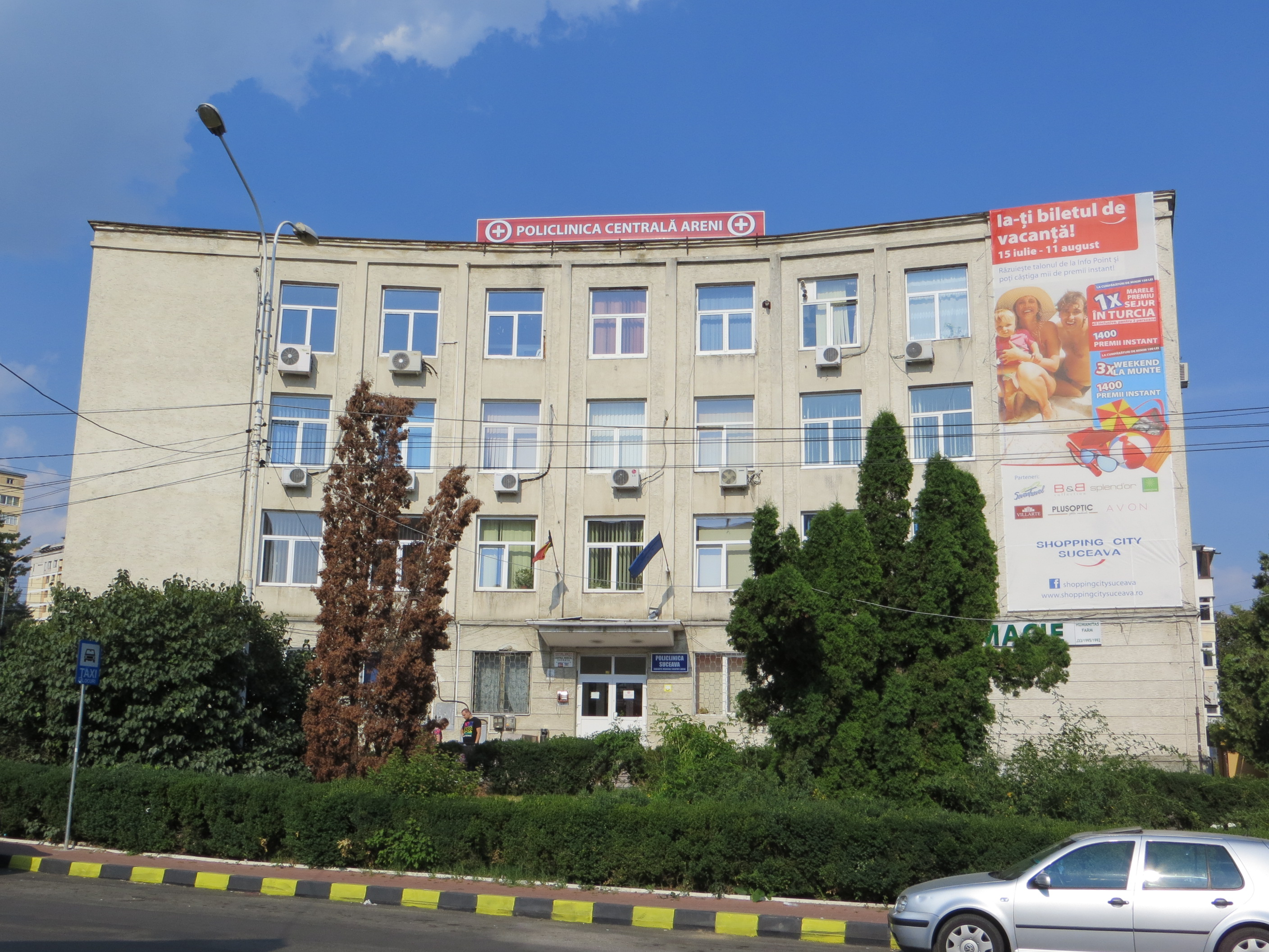 Areni Central Polyclinic in Suceava.